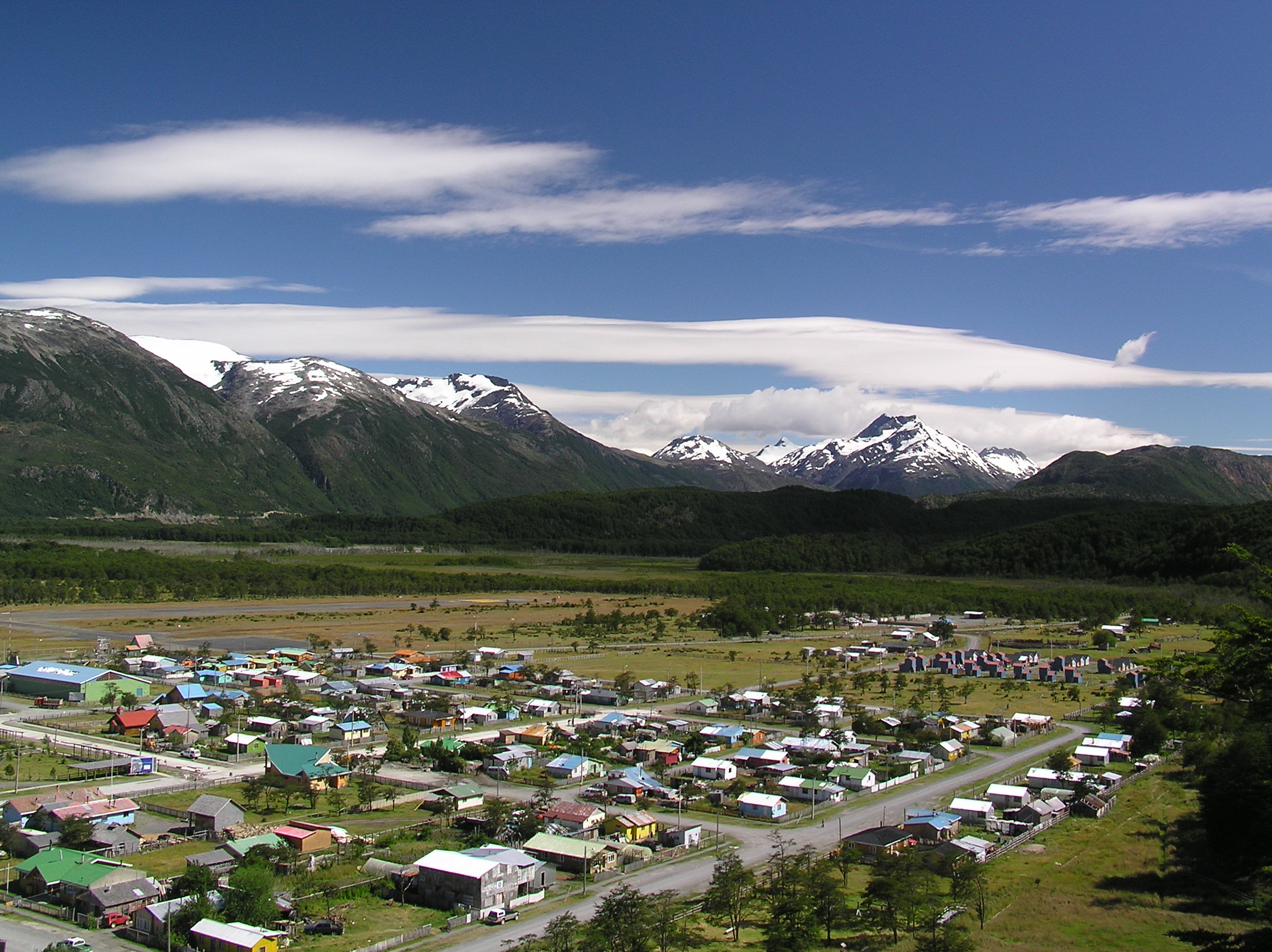 View back to town as we hiked into the mountains nearby.